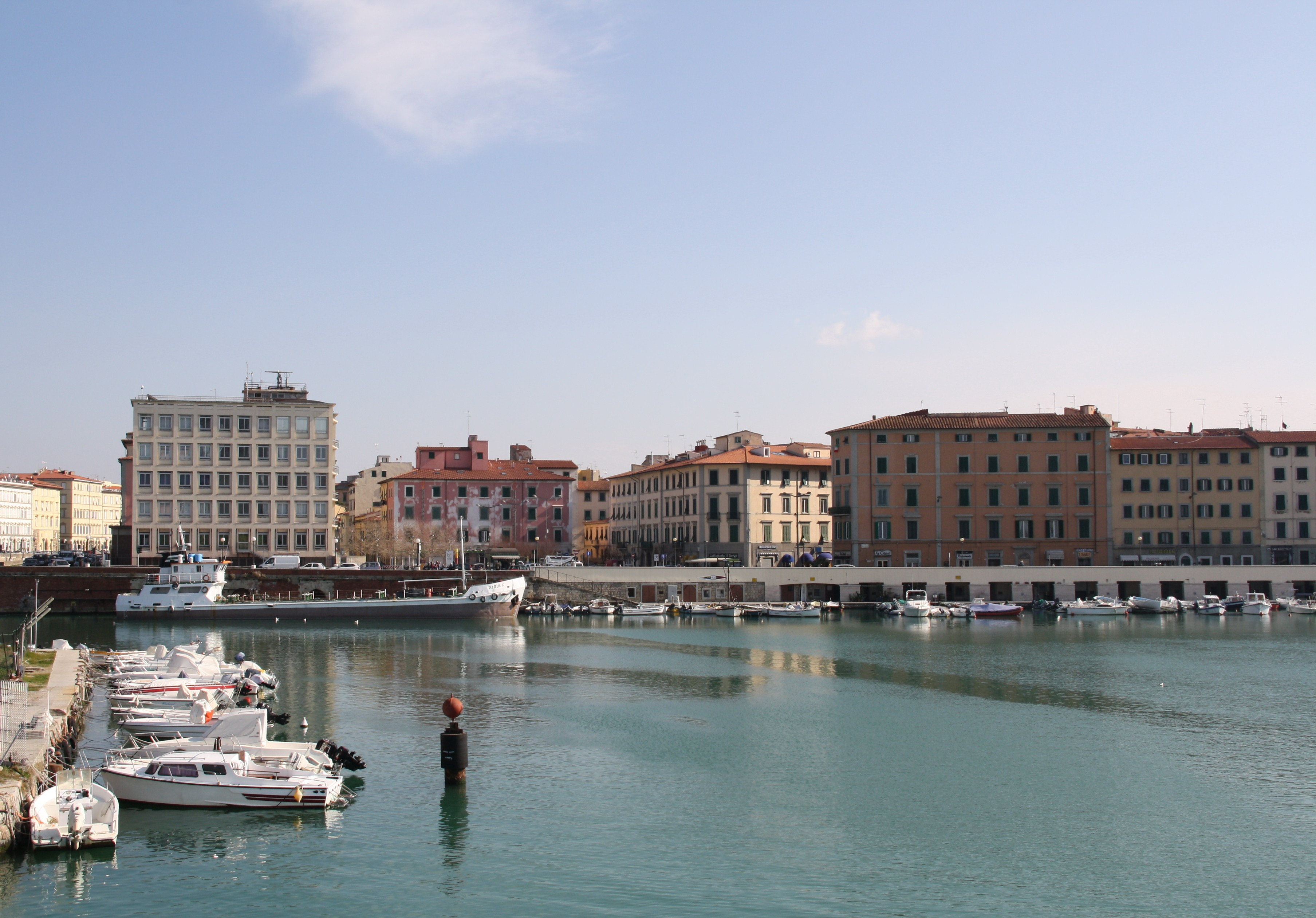 Italy, Livorno, Port of Livorno. The Nuova Darsena of Porto Mediceo.